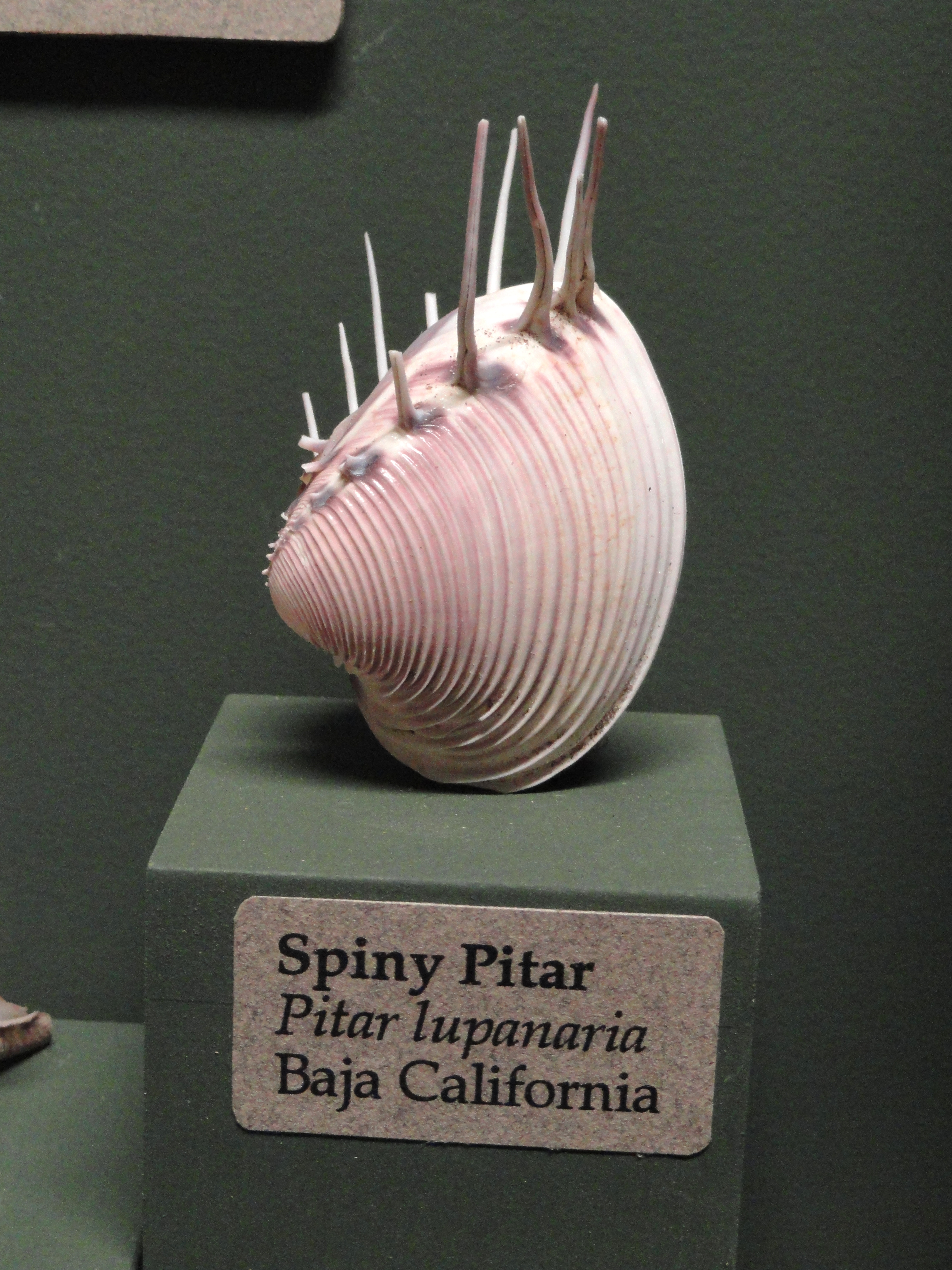 Exhibit in the Pacific Grove Museum of Natural History, Pacific Grove, California, USA. Photography was permitted without restriction in the museum.